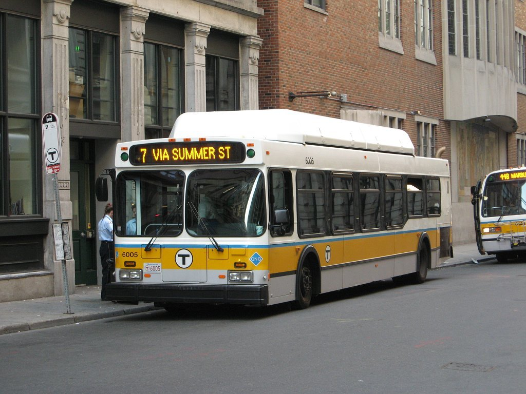 MBTA New Flyer C40LF at the corner of Summer and Otis Streets at Downtown Crossing on route 7.